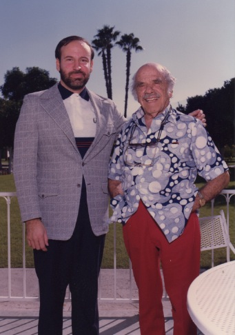 Photo of director Frank Capra (right) and Alan Greenberg in La Quinta, CA